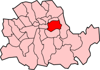 Map of the Metropolitan borough of Stepney, former County of London.